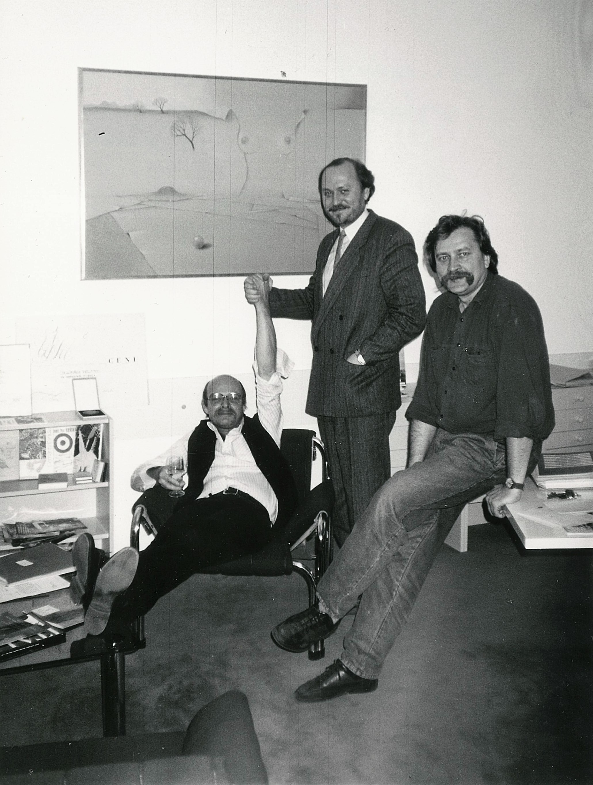 Jaromír Pelc (left), poet and editor-in-chief Mladá fronta Publishers (1987–1990)